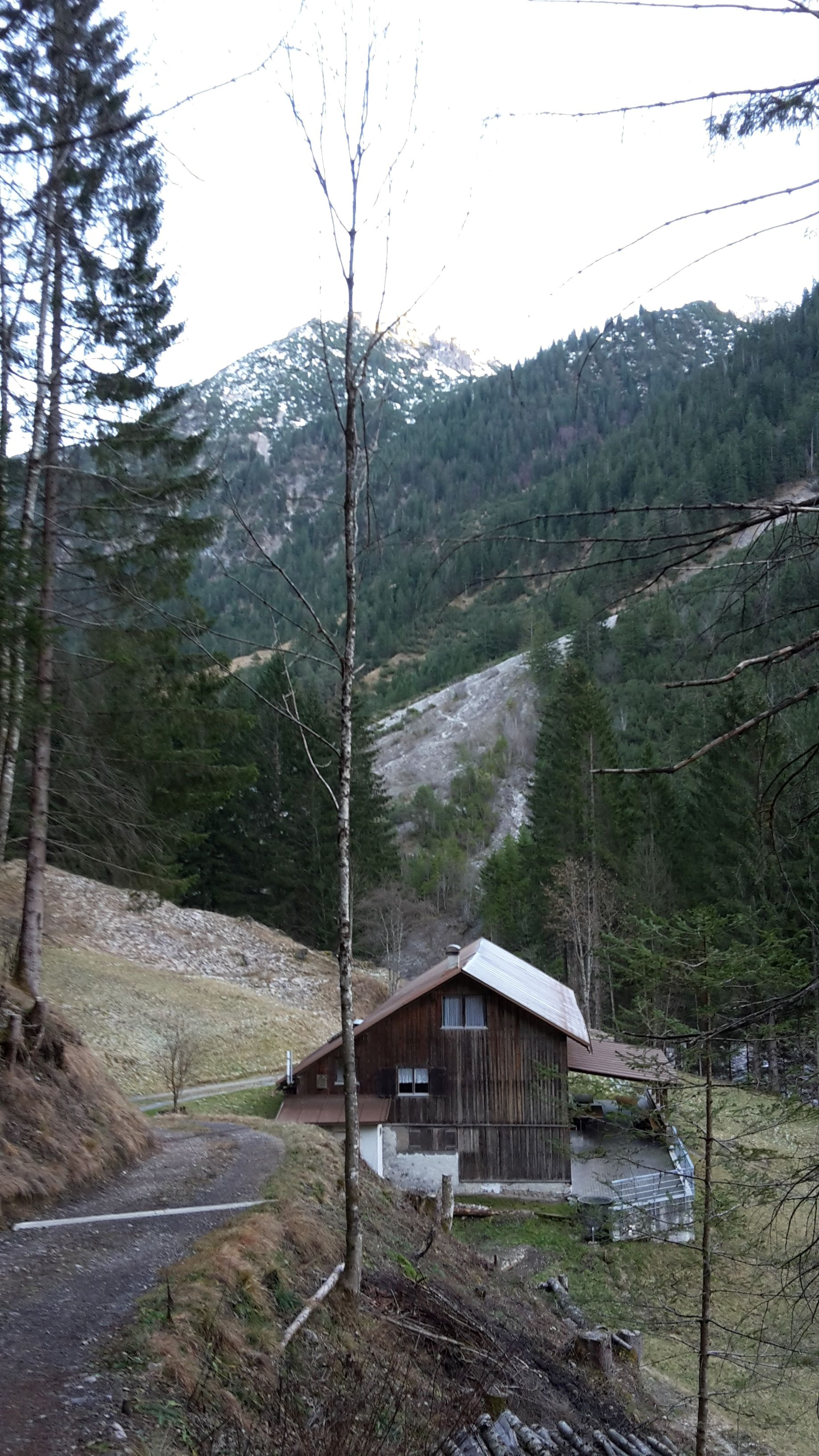 Stachelhof (also Stahlhof or Unterhof) in Marul (village Raggal), House no.: Marul 19 in the plot Baedli about 70 m above the Marulbach.